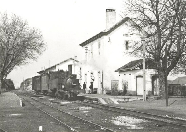 Rossas Train Station. Highest train station in Portugal.